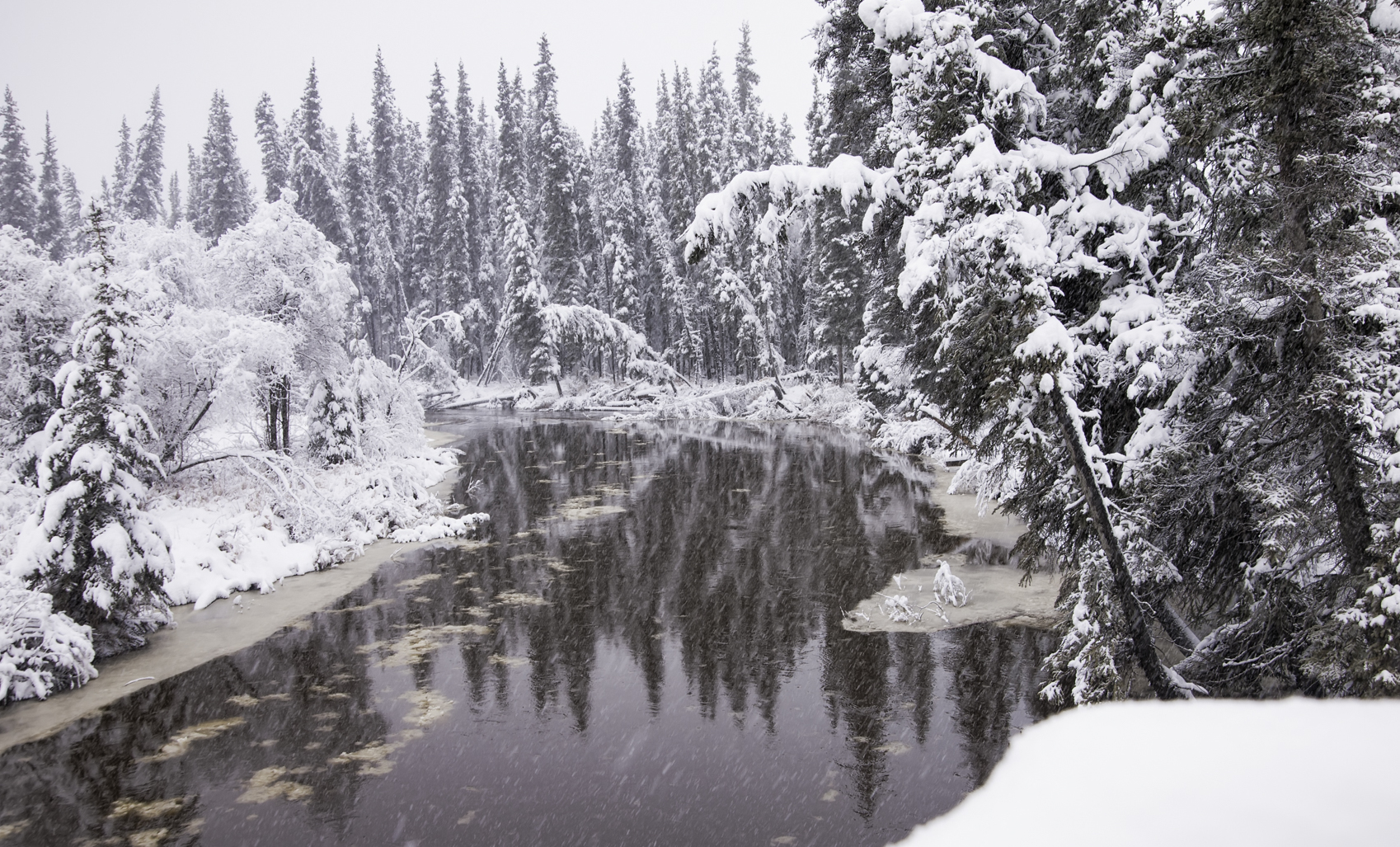 The Tolovana RIver as seen from the Dalton Highway, Alaska.